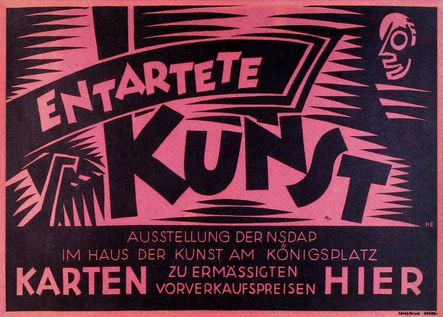 Entartete Kunst, Ausstellung der NSDAP im Haus der Kunst am Königsplatz, 1938. Publisher Berek, Berlin. Editor Nationalsozialistische Deutsche Arbeiterpartei.